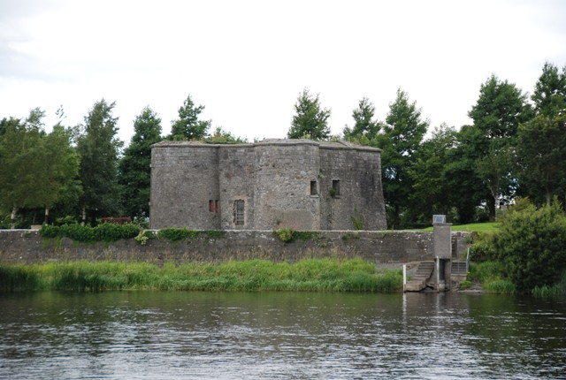 Picture of Cromwell's Castle in Banagher taken from Waller's Quay.